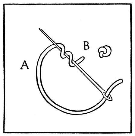 French knot